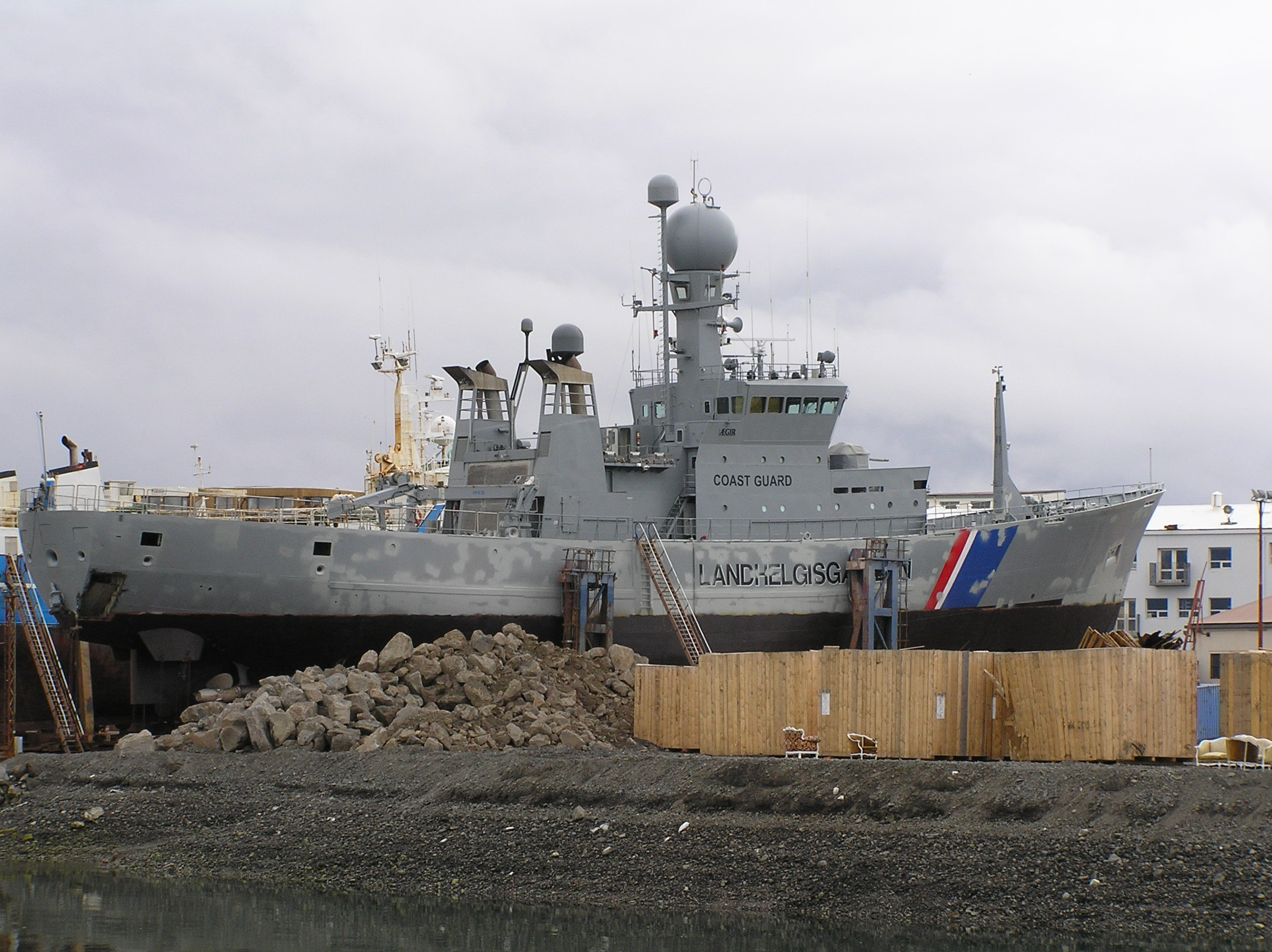 Icelandic Coast Guard vessel V/s Ægir on the slip during refit in July 2007. Author: Kjallakr